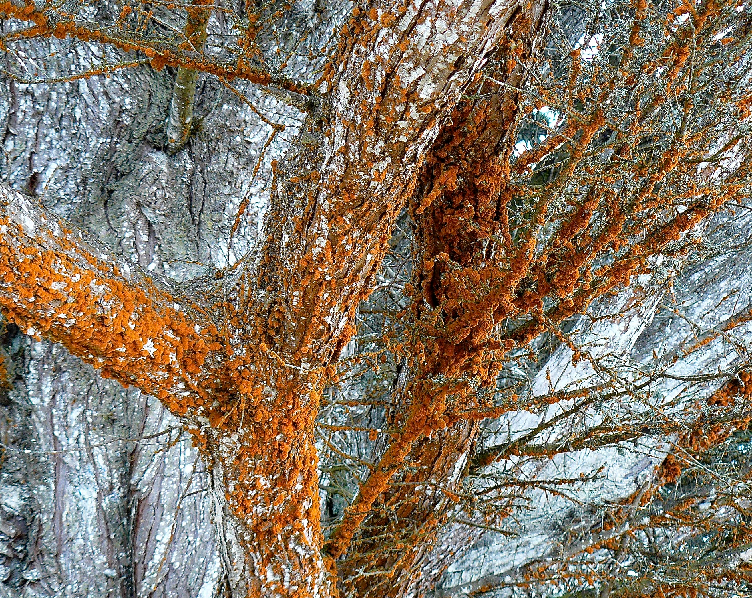 Morro Bay Marina Peninsula, Morro Bay State Park, Morro Bay California. Trentepohlia aurea is a green alga that only grows on the north side of Monterey Cypress. The orange color is caused by the presence of large quantities of carotenoid pigments which mask the green of the chlorophyll.